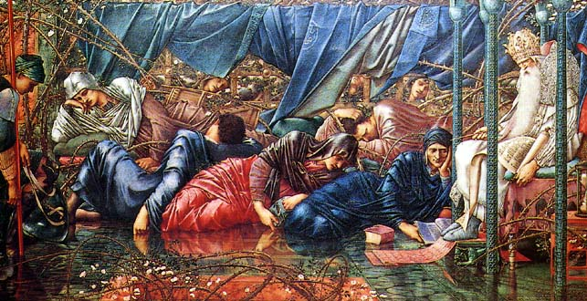 "The Council Chamber" from the "Legend of Briar Rose" by Sir Edward Burne-Jones, located at Buscot Park, Oxfordshire.